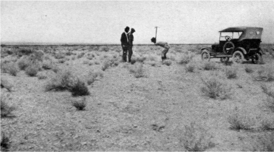 Early soil mappers